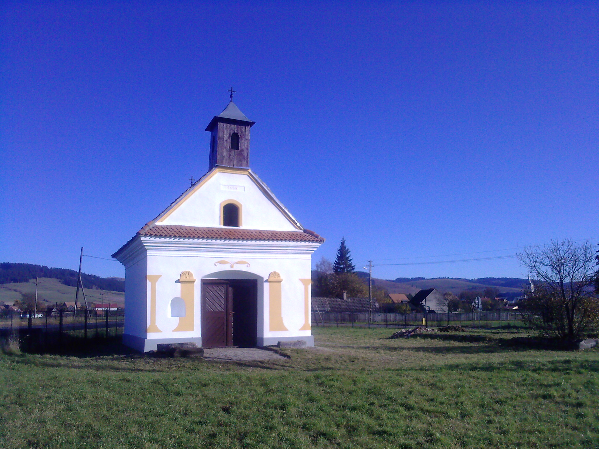 Catholic Chapel, Sanmartin, Harghita County